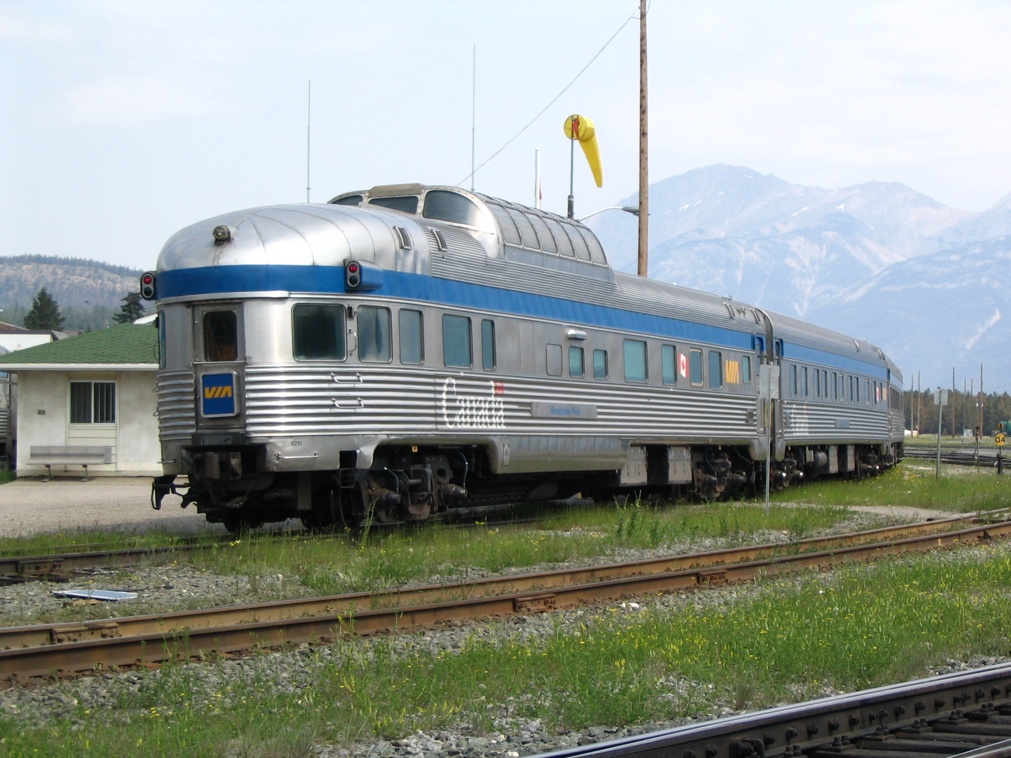 A Via Rail "Park" sleeper-dome-lounge on the back of the Canadian at Jasper in 2004.